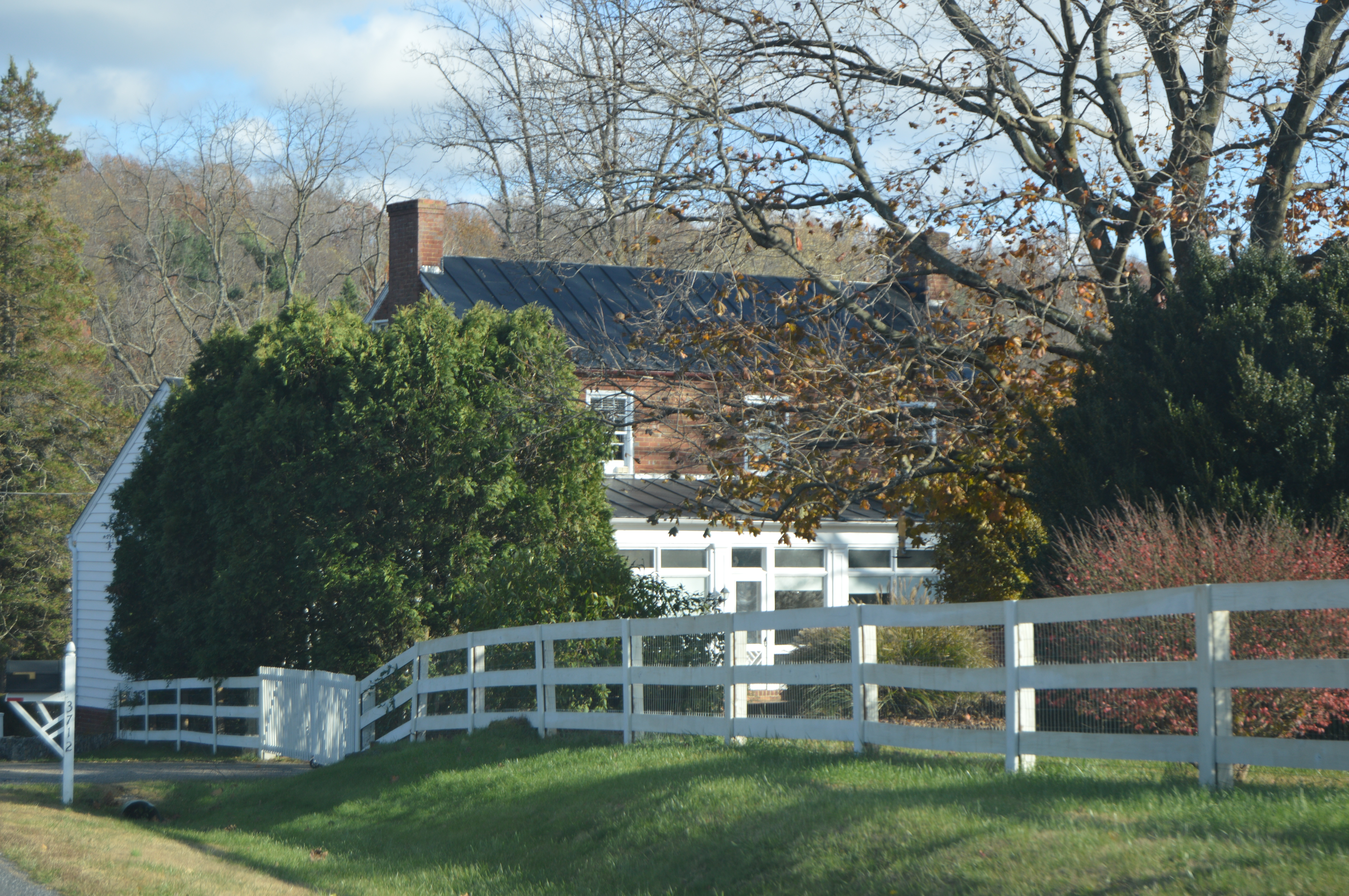 Rear of the Taylor Springs House, located at 3712 Taylor Spring Road southeast of Harrisonburg in Rockingham County, Virginia, United States. Built in 1850, it is listed on the National Register of Historic Places.